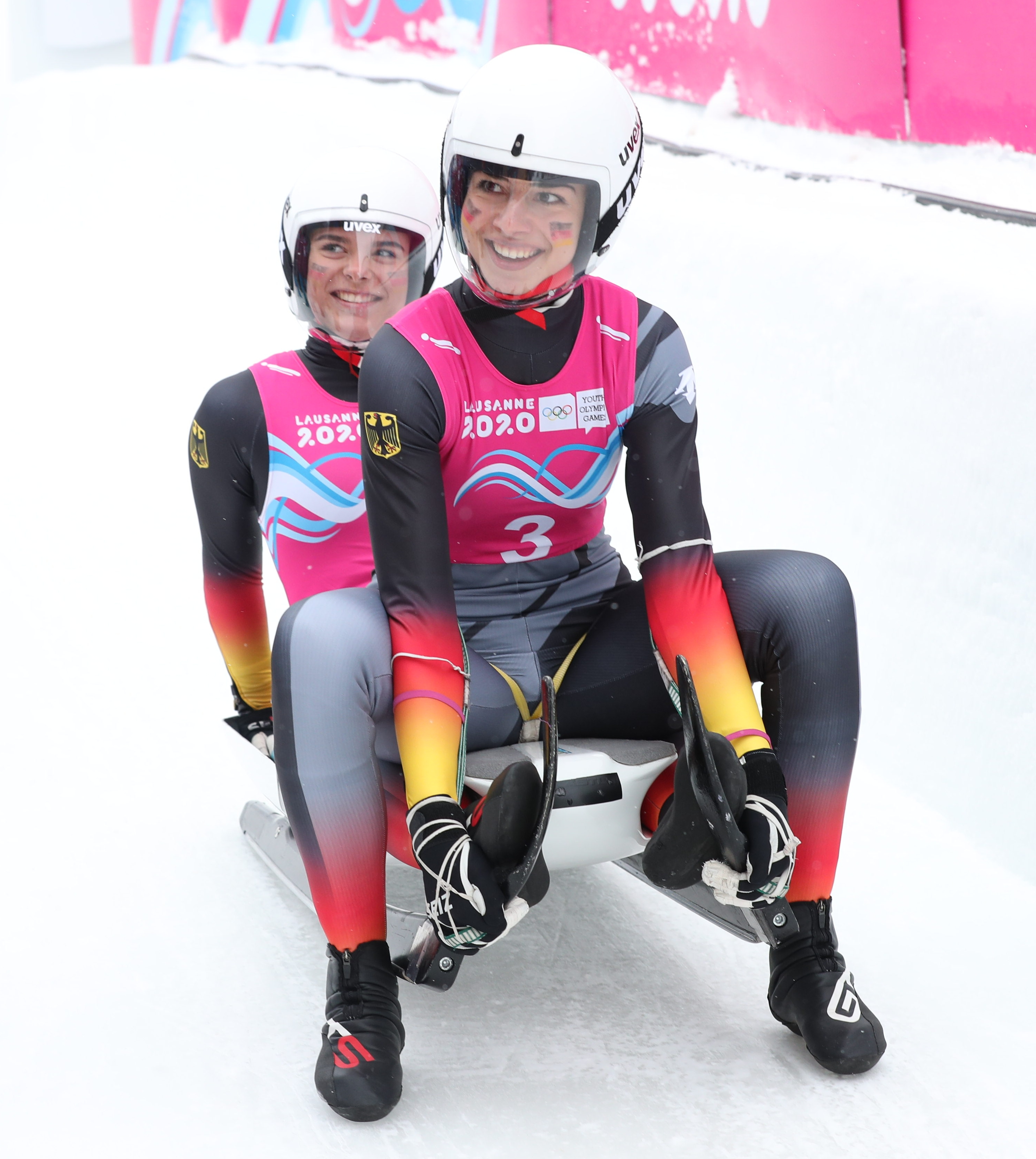 2nd run Luge Women's Double at the 2020 Winter Youth Olympics in Lausanne